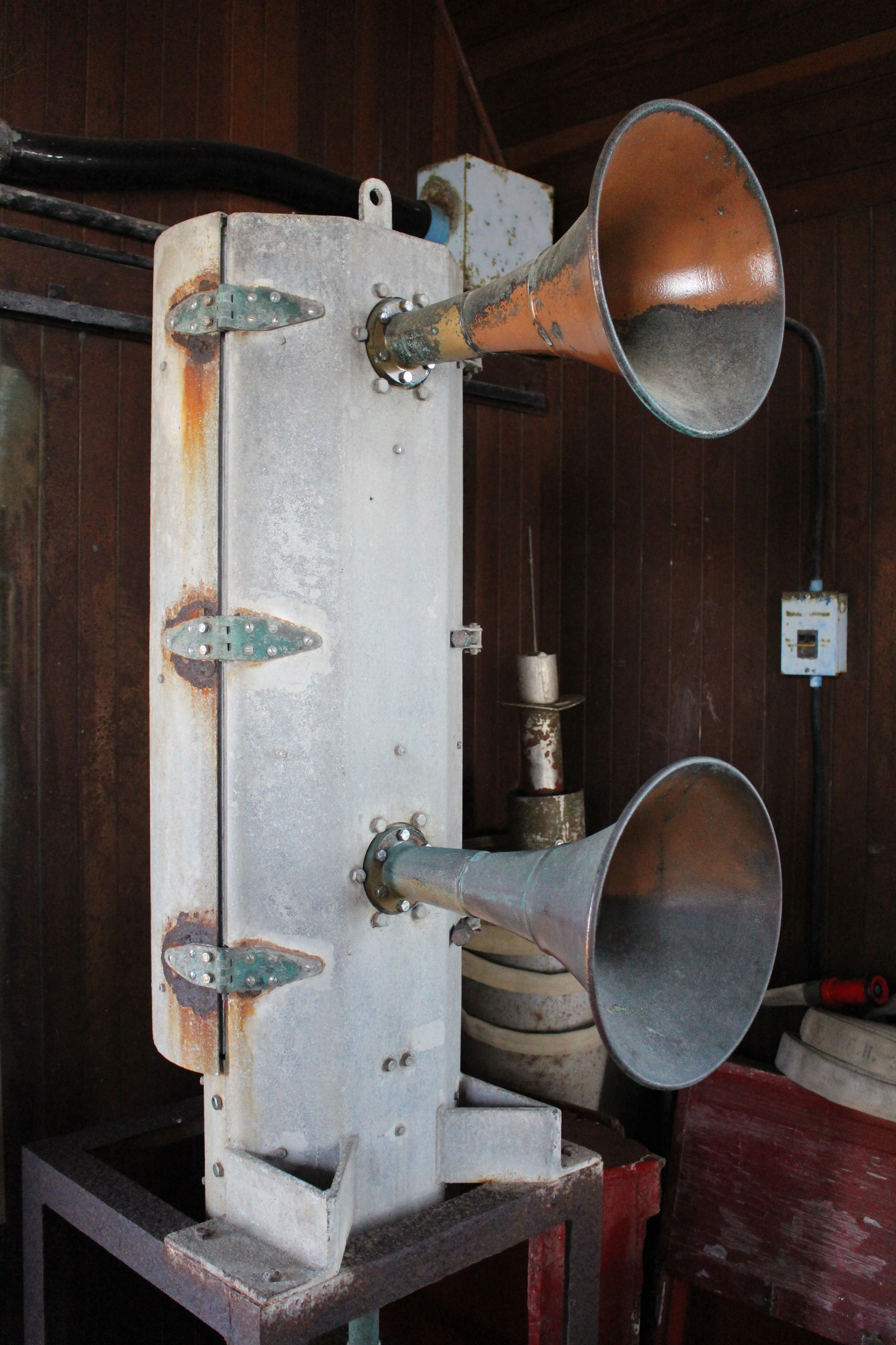 A historical "Supertyphon" [sic] air horn on display at Point Reyes Lighthouse, the last kind of fog horn used at the site before it was automated in 1975